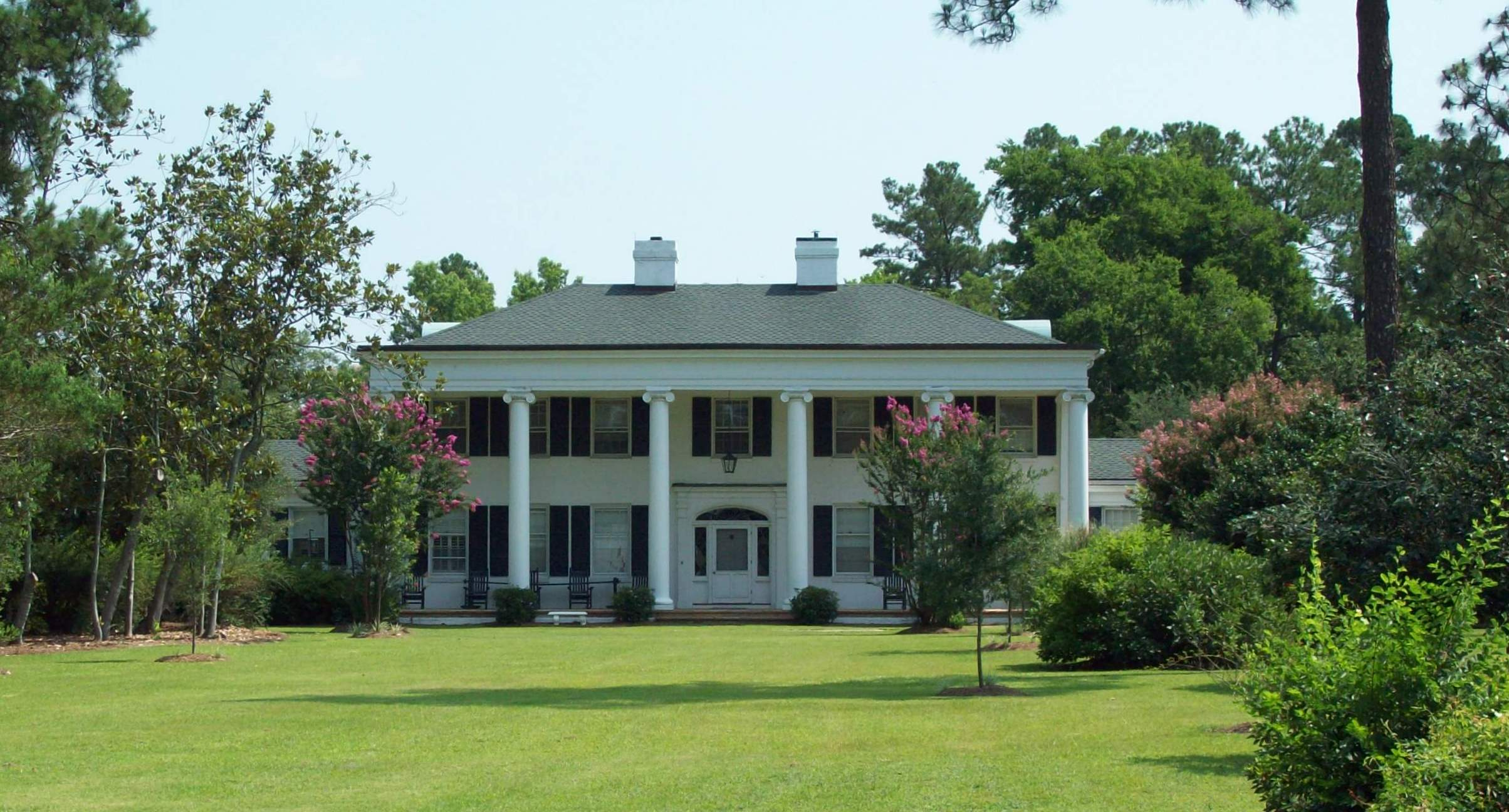 Galivants Ferry Historic District - John Monroe Johnson Holliday House, June 2010